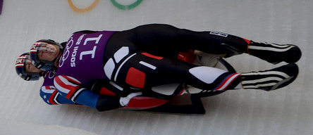 U.S. Army World Class Athlete Program Soldiers Sgt. Matt Mortensen (top) and Sgt. Preston Griffall (bottom) are clocked at 80 miles per hour on a run of 51.660 seconds during Olympic luge doubles training Feb. 10 at Sanki Sliding Centre in Krasnaya Polyana, Russia. (U.S. Army photo by Tim Hipps)